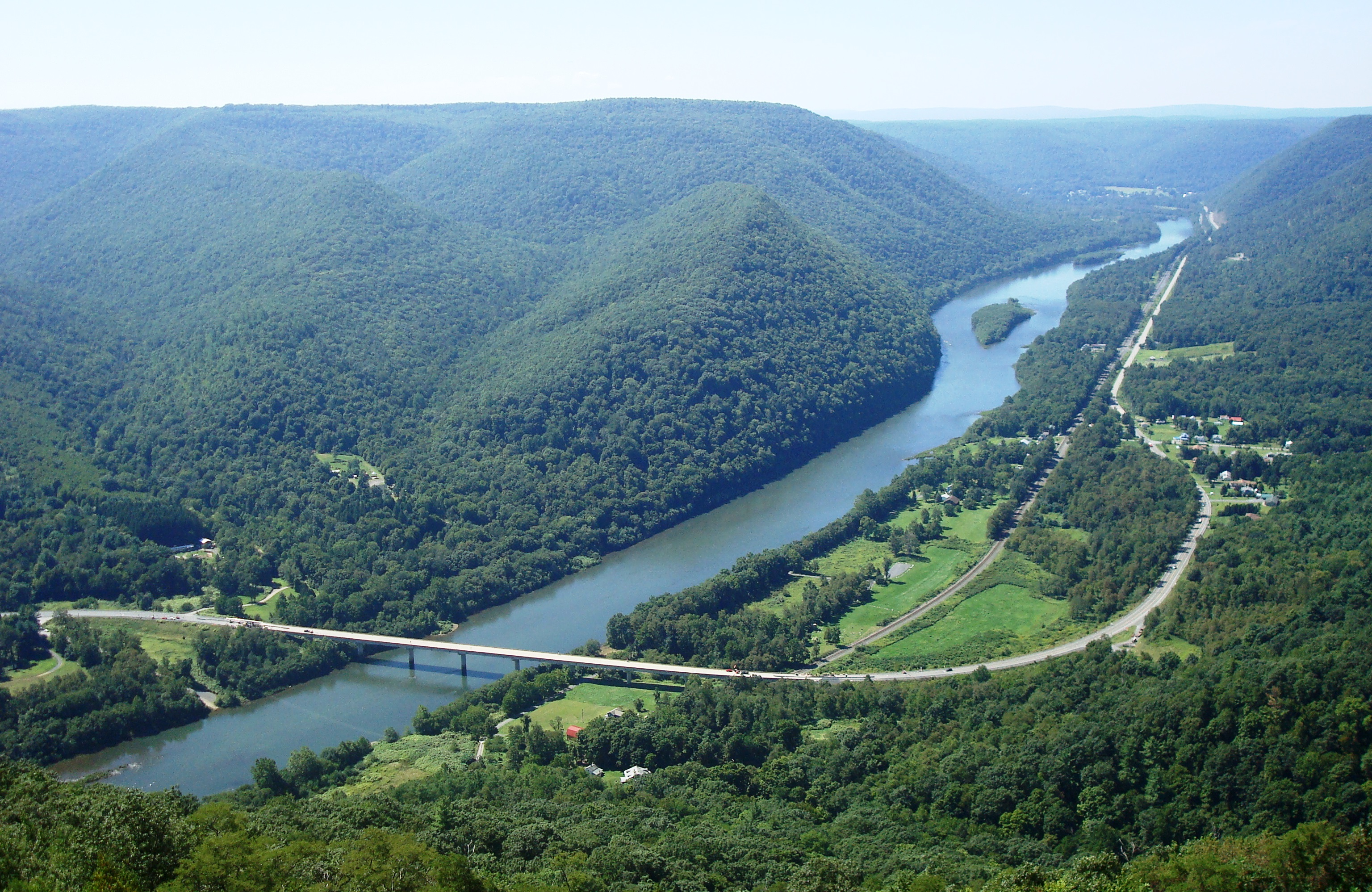 Hyner View State Park is a 6-acre (2.4 ha) Pennsylvania state park in Chapman Township, Clinton County, Pennsylvania. Its primary uses are as a scenic viewpoint and for the launching of paragliders.